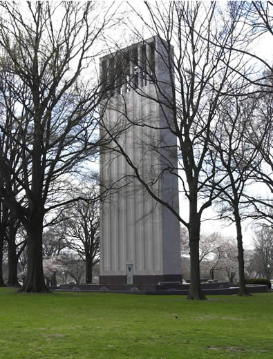 Robert A. Taft Memorial Seen from the Northeast. Downloaded from Architect of the Capitol Website.